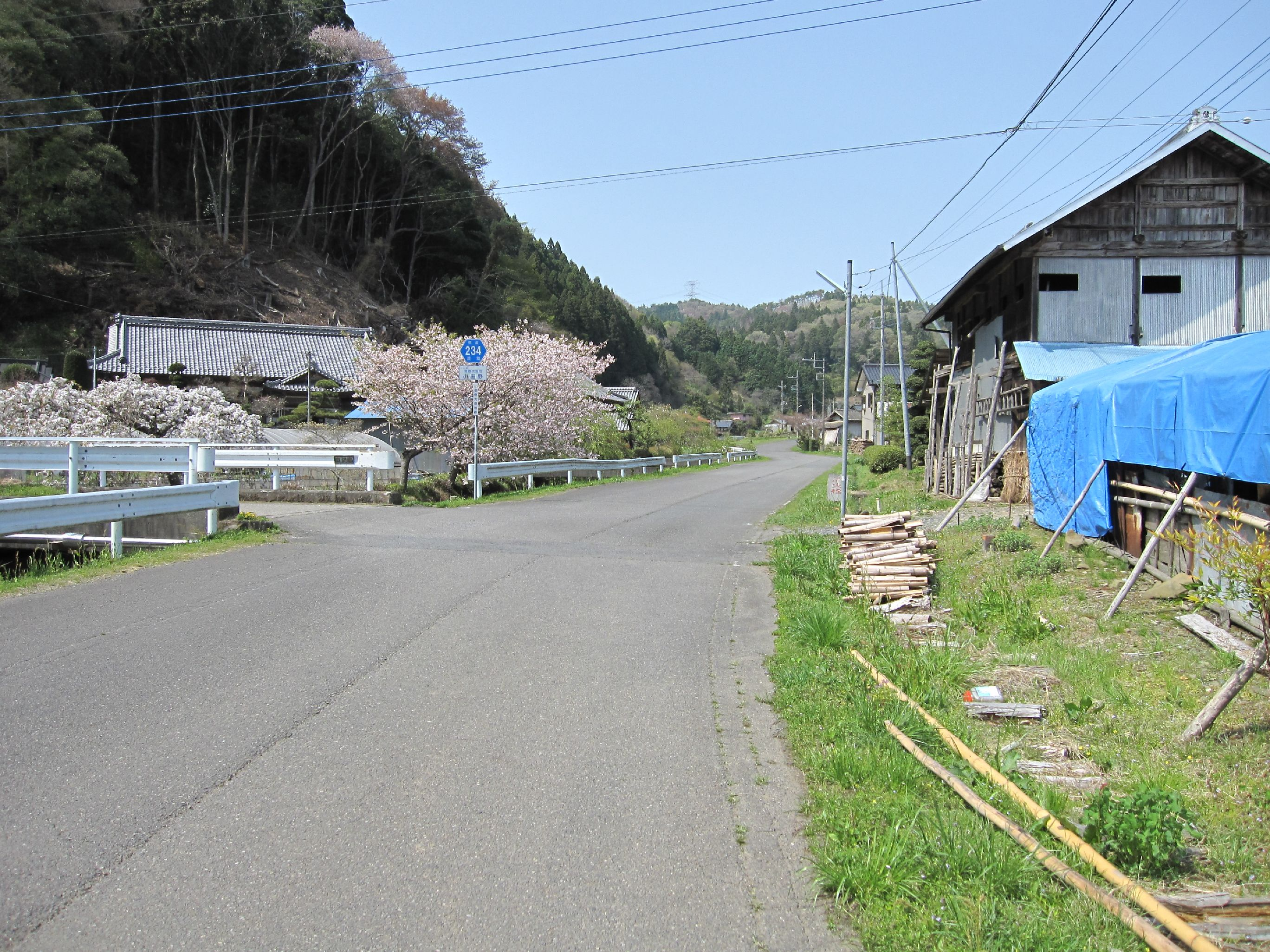 The Ibaraki Prefectural Road Route 234 in Otano, Hitachiomiya City